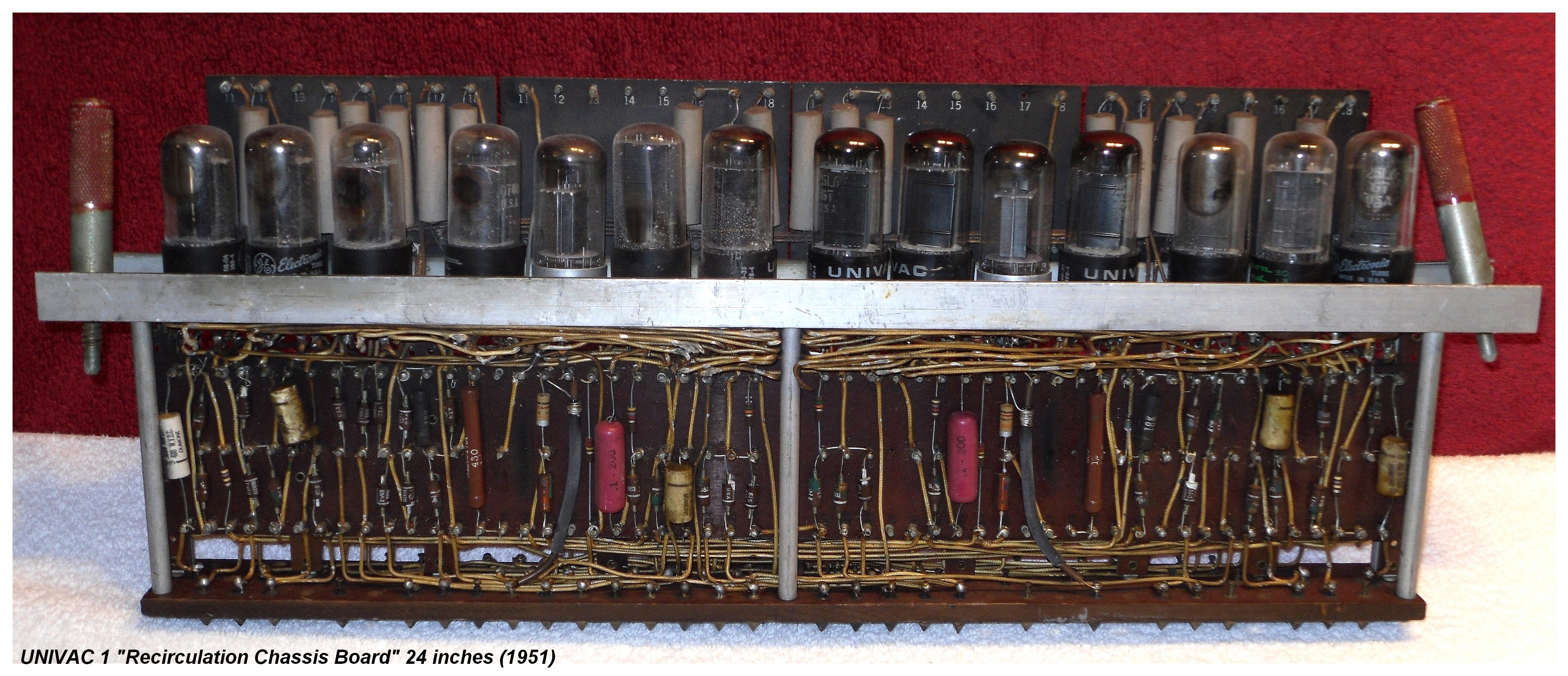 A Recirculation Chassis vacuum tube board from a UNIVAC 1. Length: 24 inches. Manufactured by Remington Rand UNIVAC, 1951.